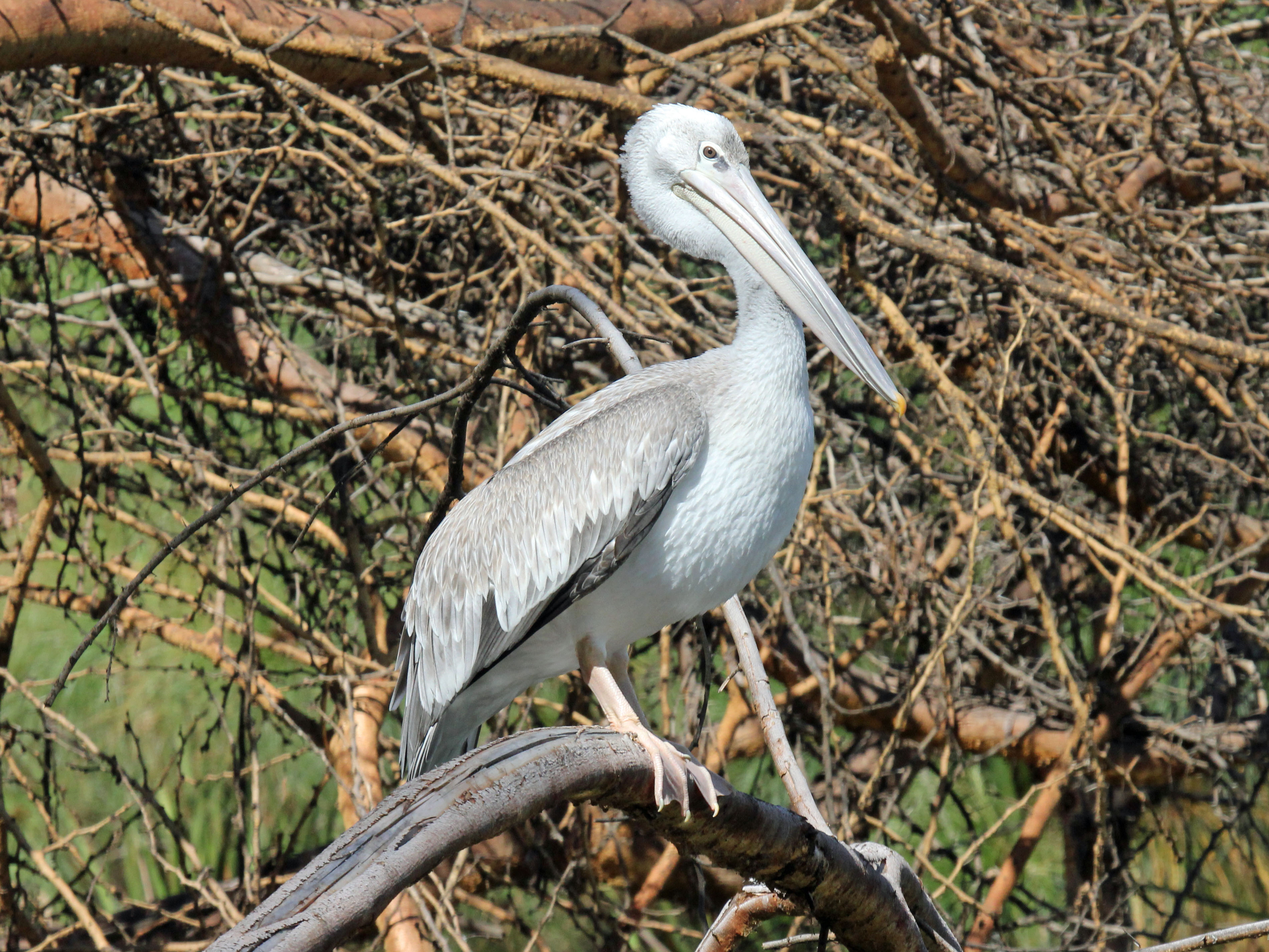 Pink-backed Pelican (Pelecanus rufescens) - Fish Eagle Lodge, Knysna Lagoon, Kenya